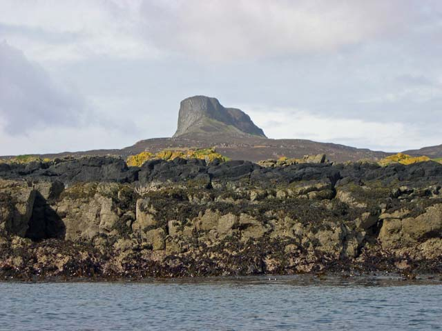 An Sgurr from a sea kayak perspective. An Sgurr dominates the Eigg landscape and it is an impressive landmark from sea level.